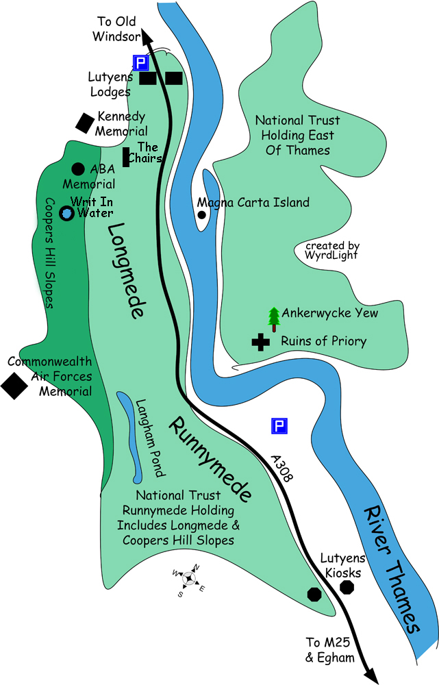 Diagram of Features at Runnymede Surrey